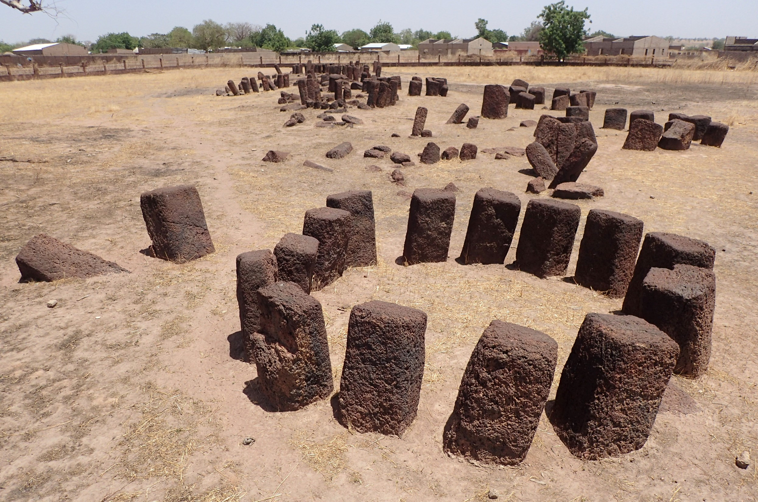 Stone circles of Sine Ngayène, Senegal, Kaolack province.